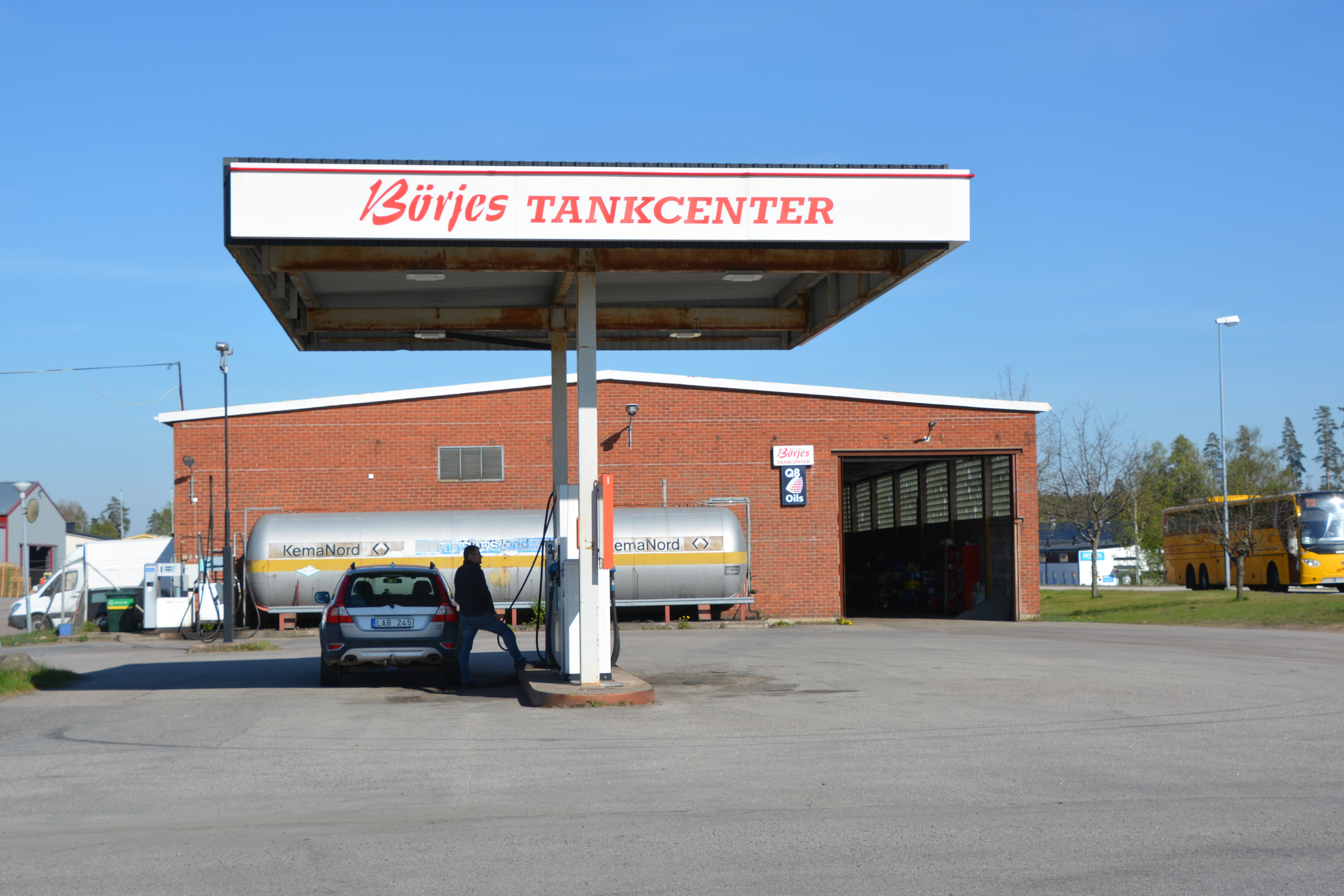 Börjes Tankcenter, Åseda